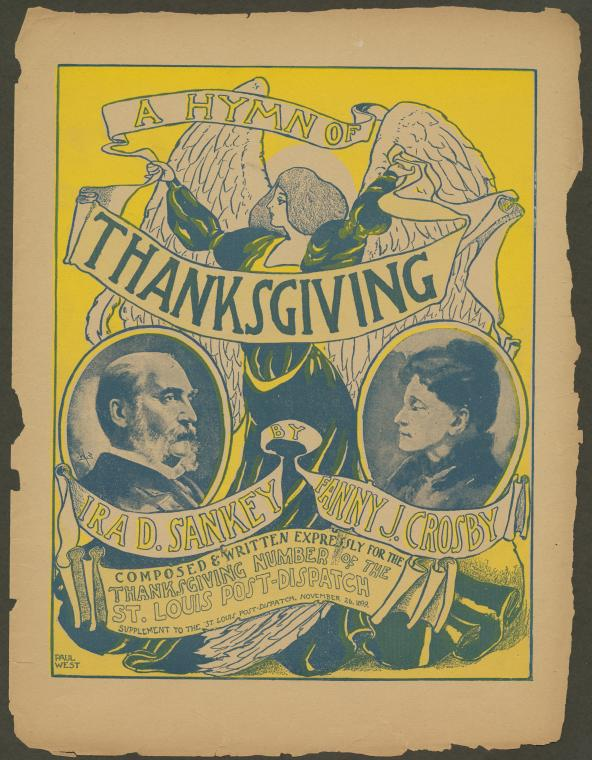 "A Hymn of Thanksgiving", composed and written by Fanny J. Crosby and Ira D. Sankey, sheet music cover.